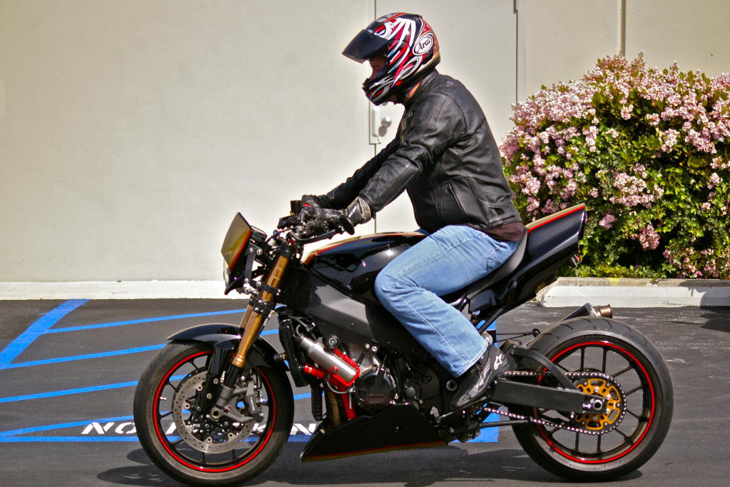 Streetfighter Motorcycle Sample